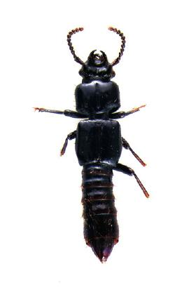 Plastus shanghaiensis (scale bar = 1 mm)